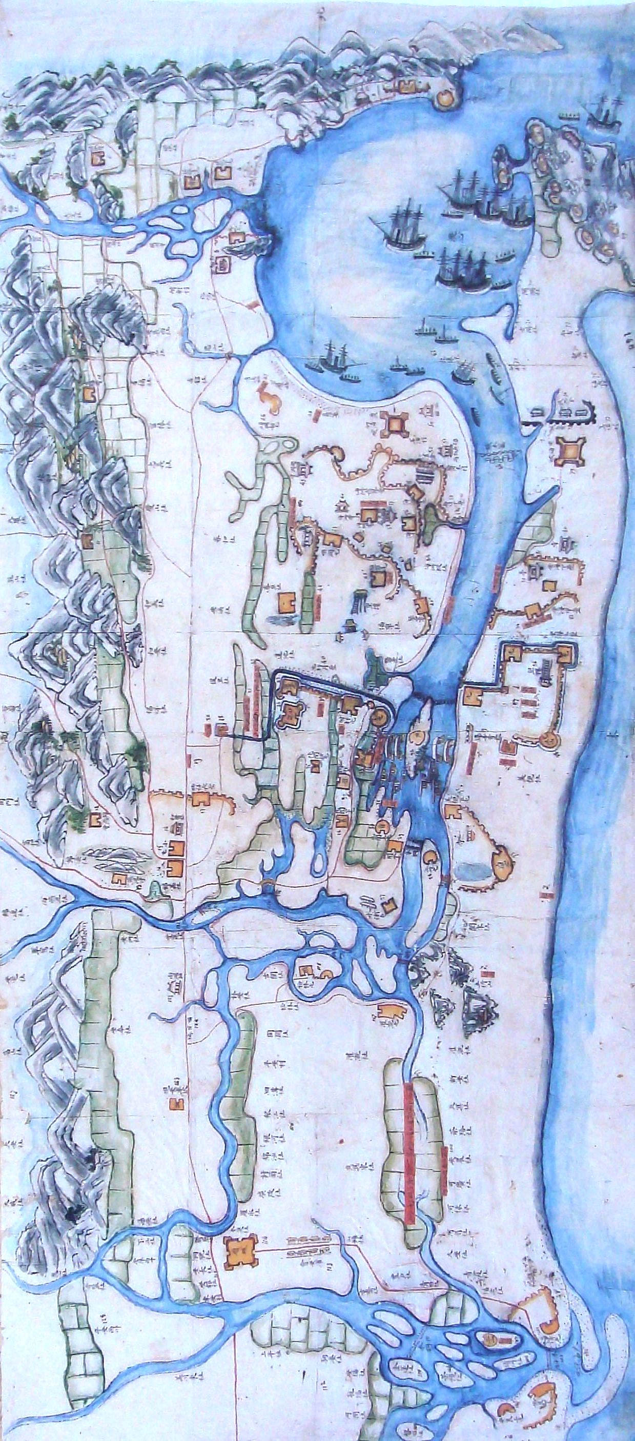 Battle_of_Tourane_Vietnamese_depiction_with_French_legend 1859